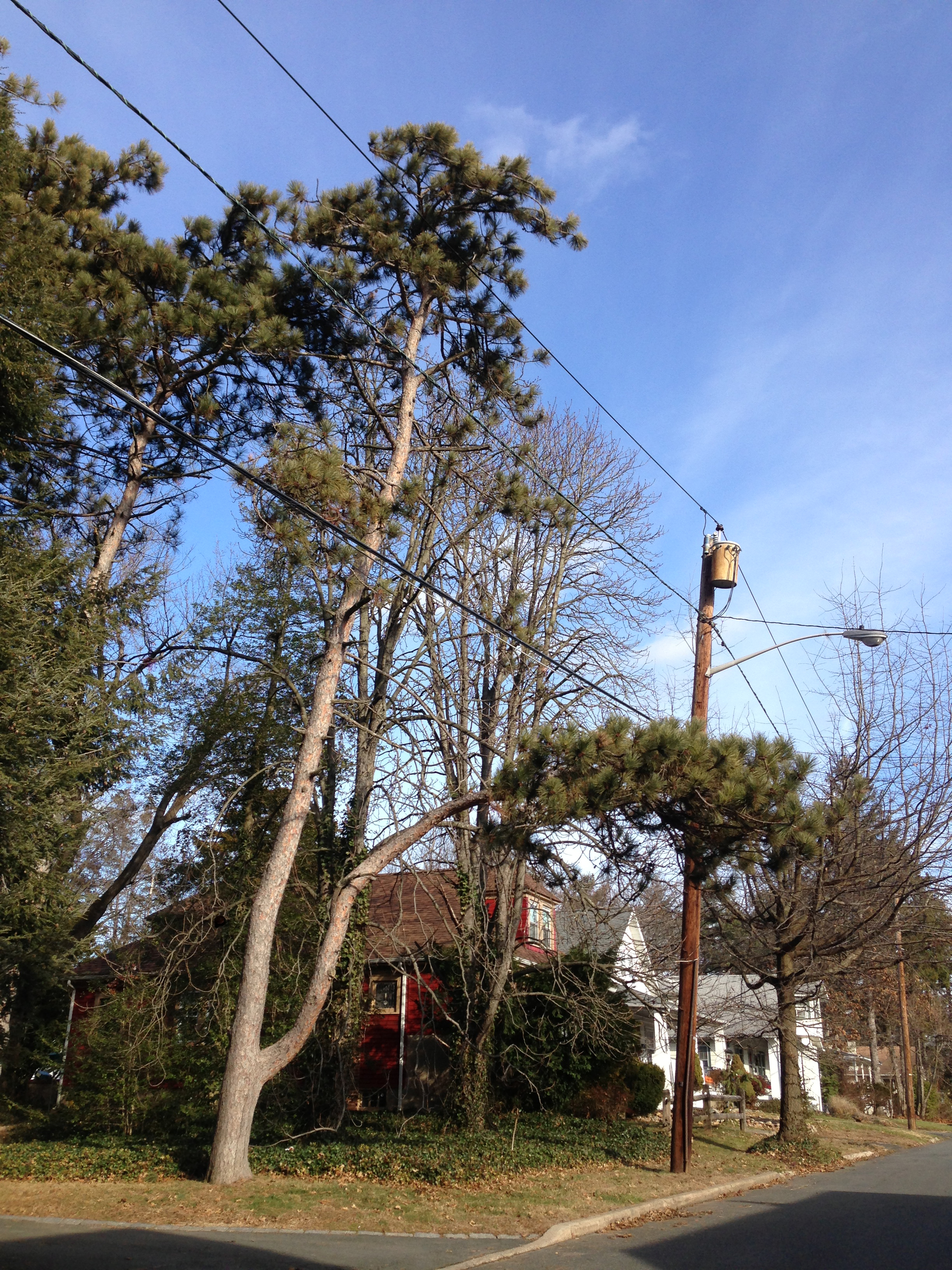 Austrian Pine, utility pole and street light on Brenwal Avenue in Ewing, New Jersey